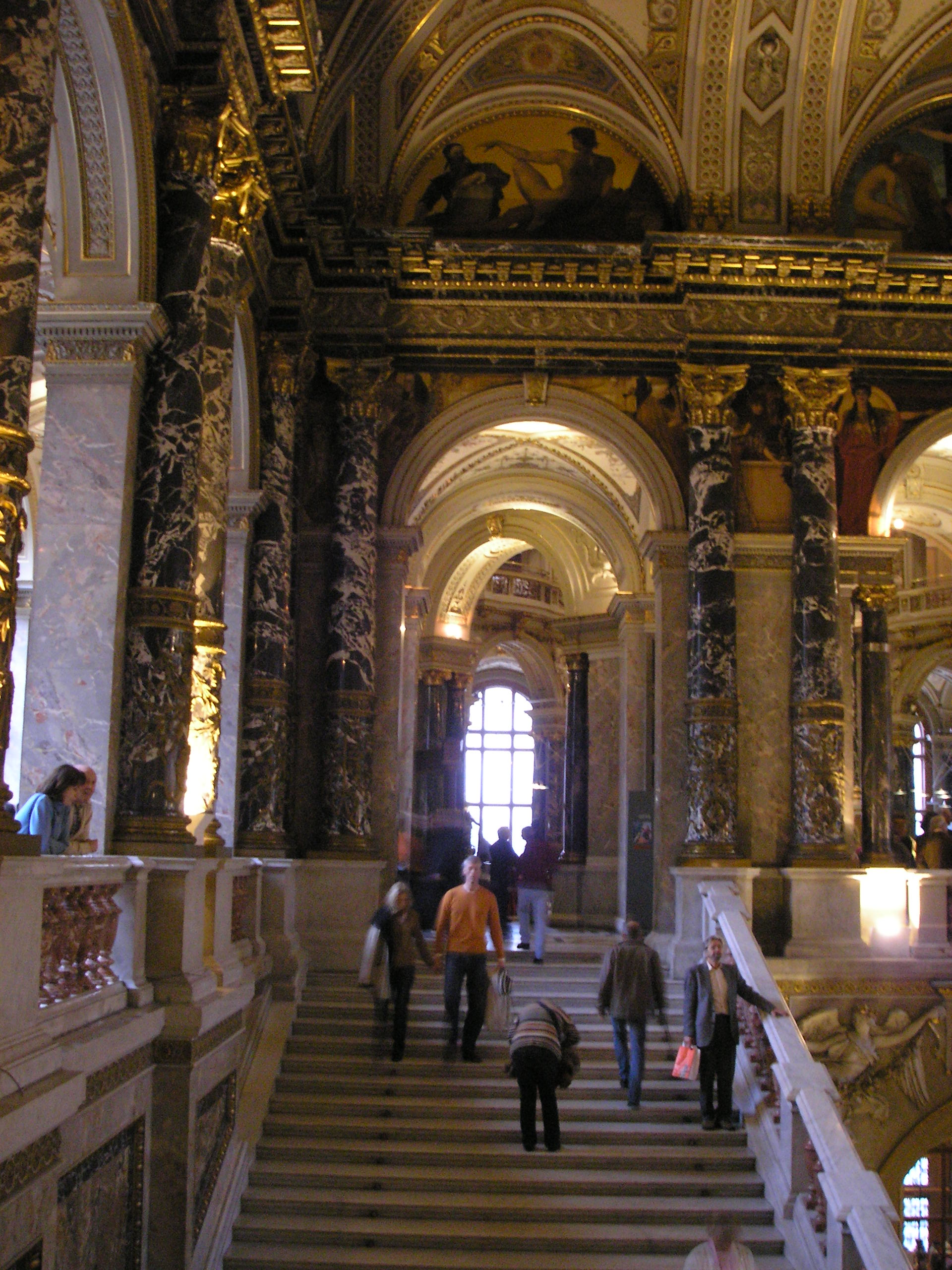 Description: View of staircase in the Kunsthistorisches Museum in Vienna. Stiegen im Kunsthistorischen Museums in Wien. Fall 2005. Source: Self-made, I release it into the public domain.